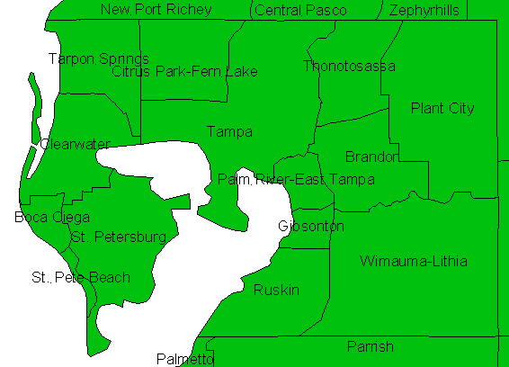 Cropped screenshot generated by ArcExplorer using data from the US government.